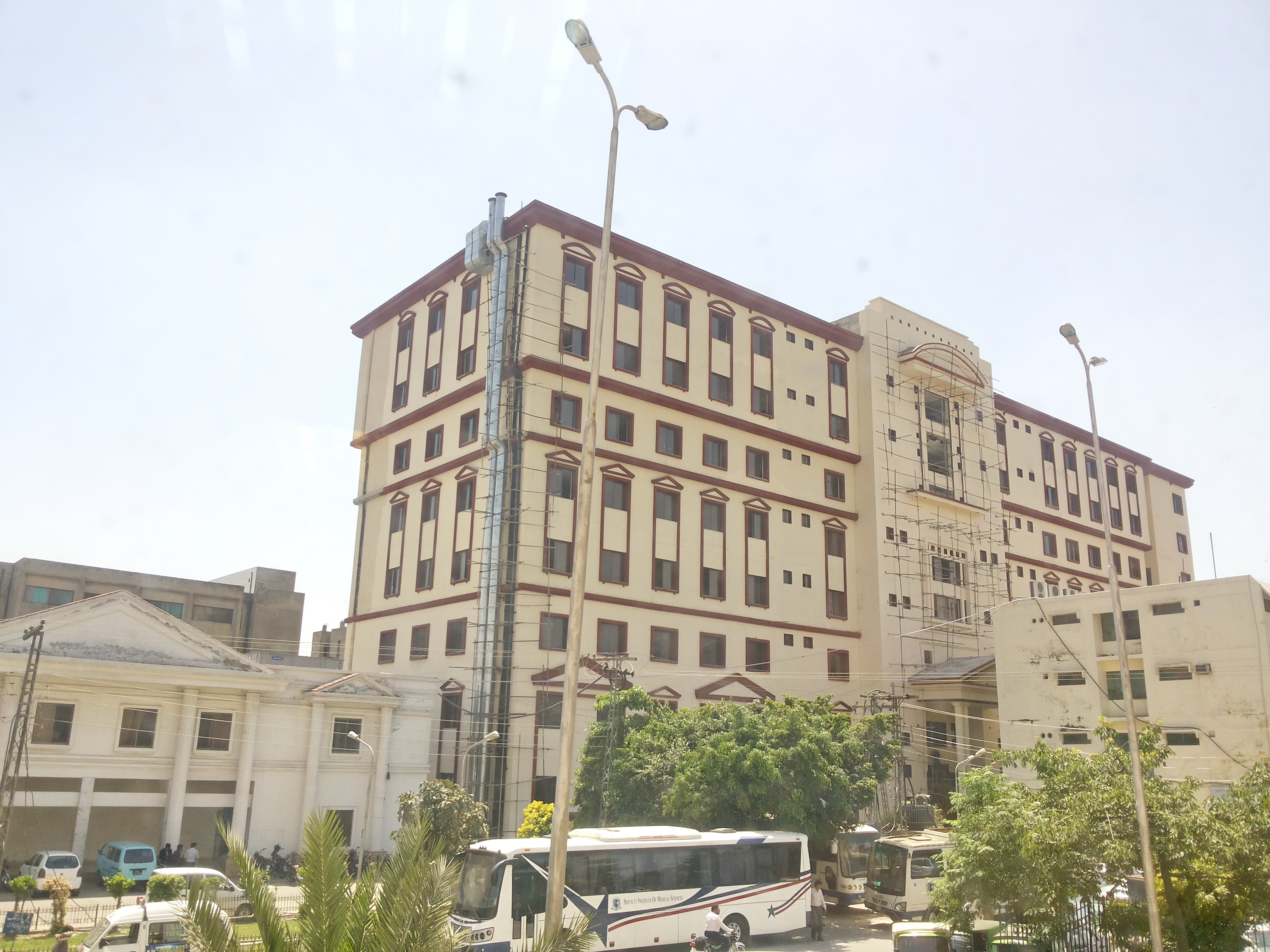 Under construction Outpatient Department of Services Hospital of Lahore